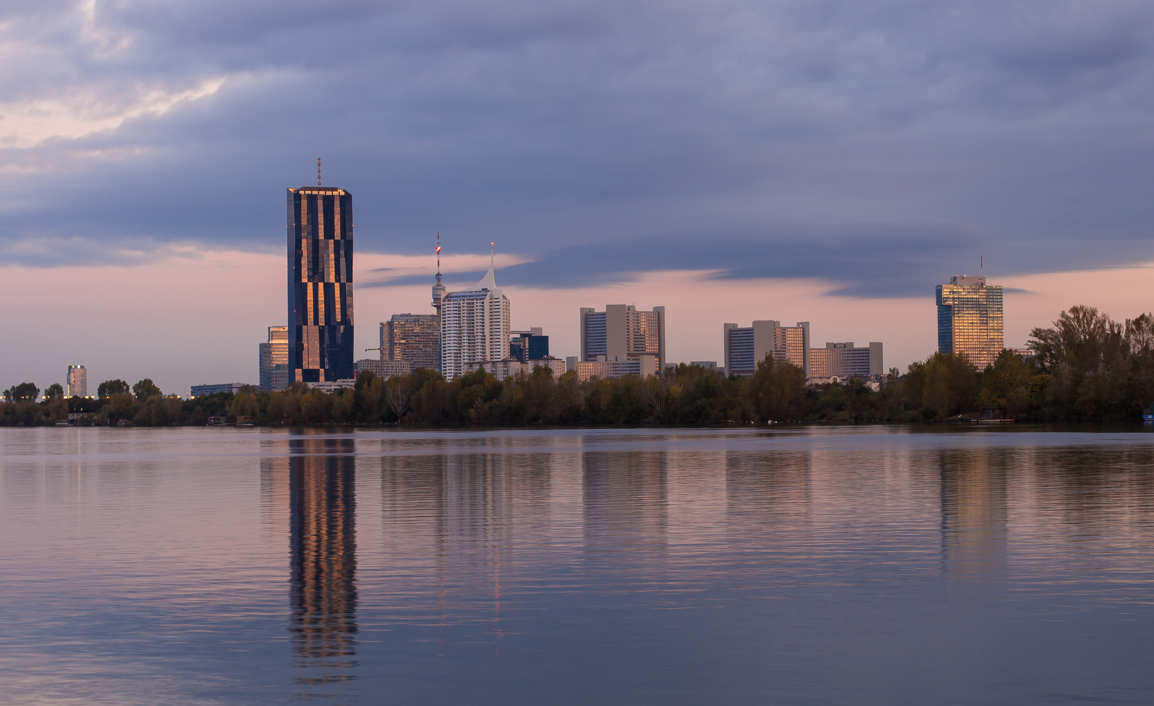 Donaucity Vienna, seen from Donaumarina